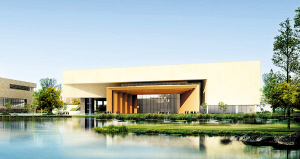 Planning and design of Tianjin Cultural Center，by Government of Tianjin City,P.R.China